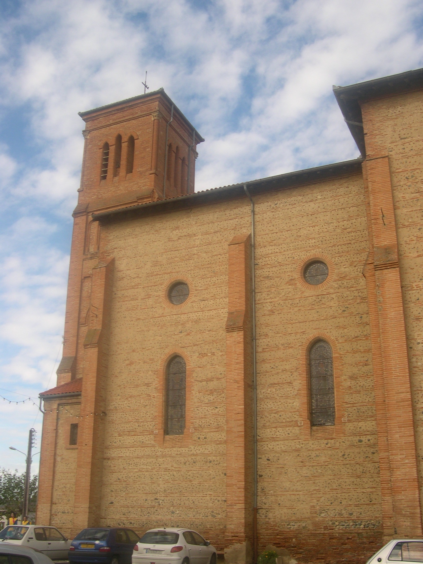 Church of Beaumont-sur-Lèze, Haute-Garonne, France. Southern wall.